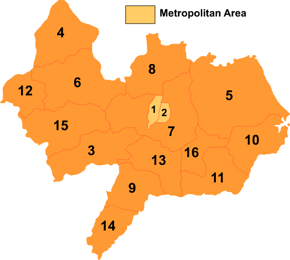 Map of Cangzhou in Hebei province